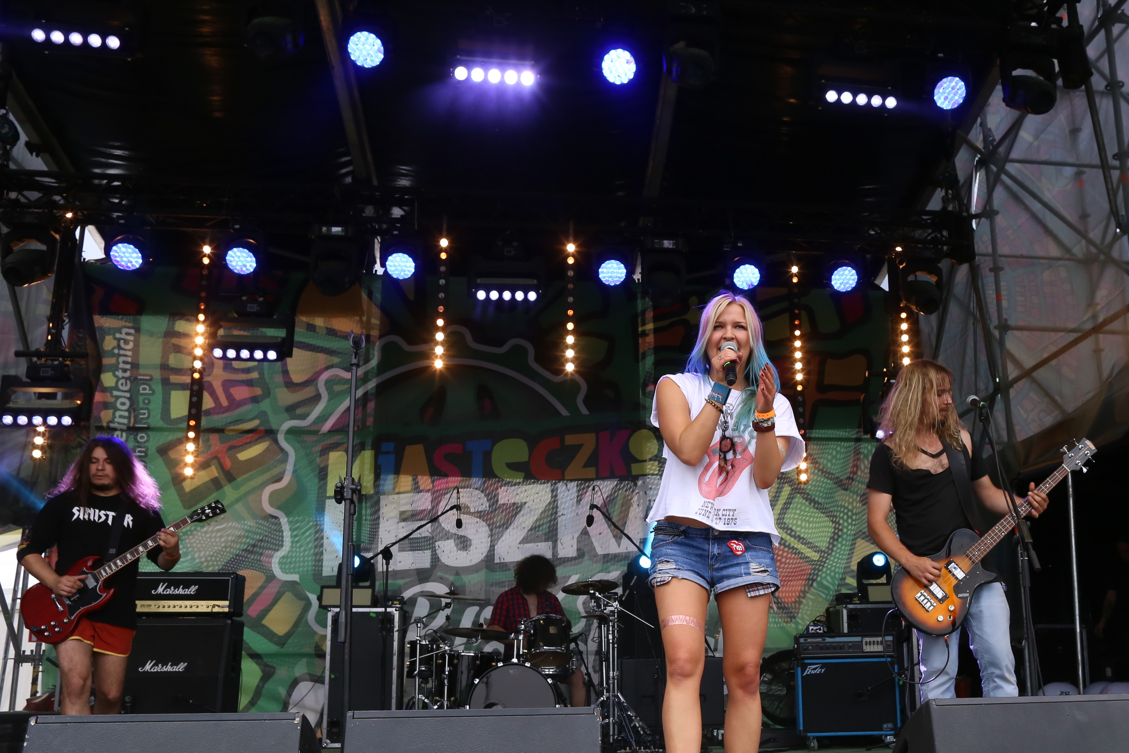 Pol'and'Rock Festival in 2019.